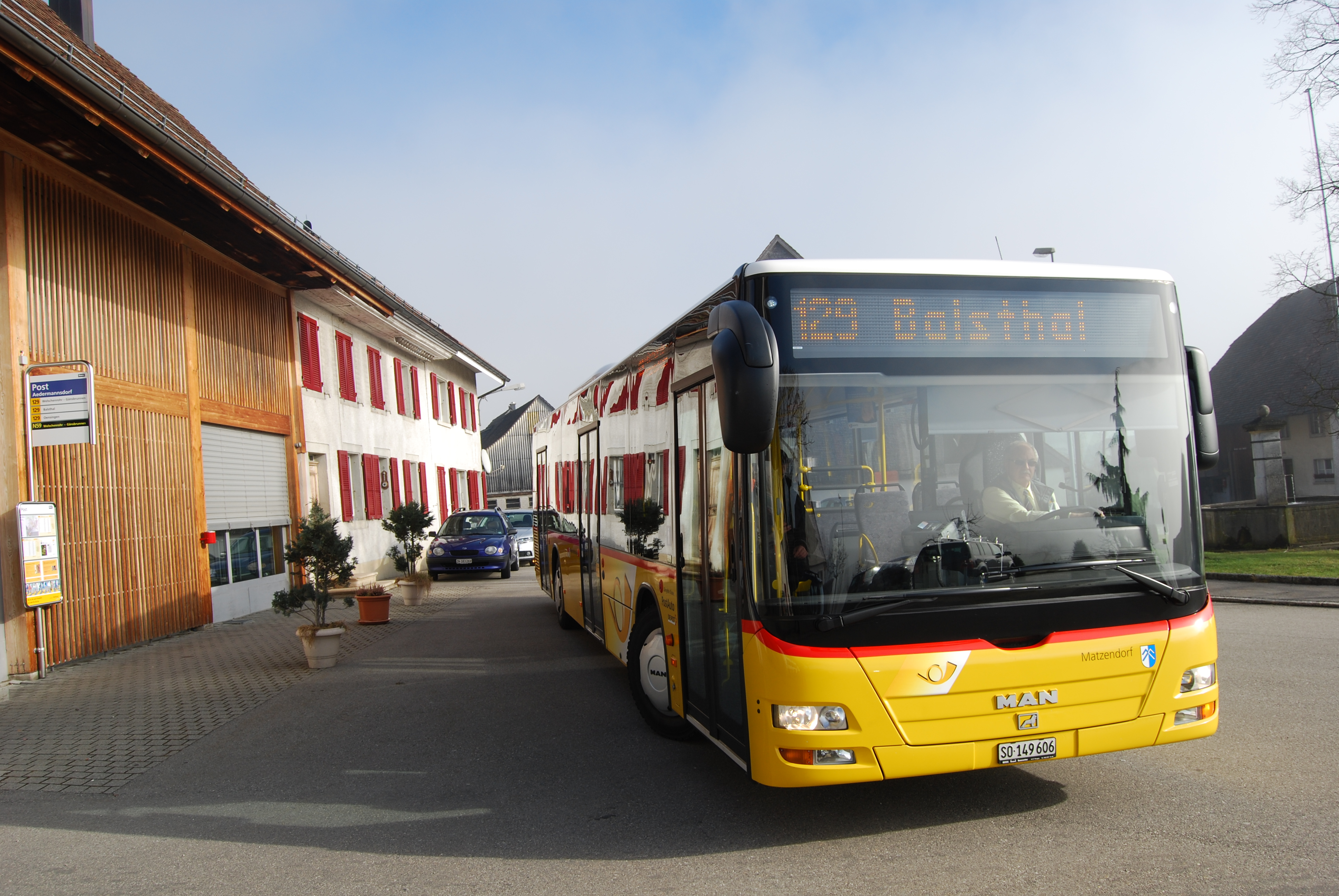 Aedermannsdorf, canton of Solothurn, SwitzerlandEsperanto: Aedermannsdorf, Kantono Soloturno, Svislando